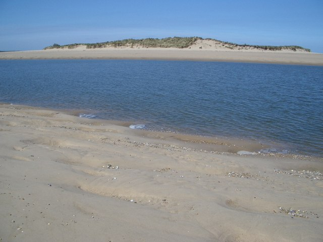 Scolt Head Island from Gun Hill The sand dunes at the eastern end of Scolt Head Island are seen here, looking from Gun Hill across the tidal River Burn flowing left to right with the tide dropping.